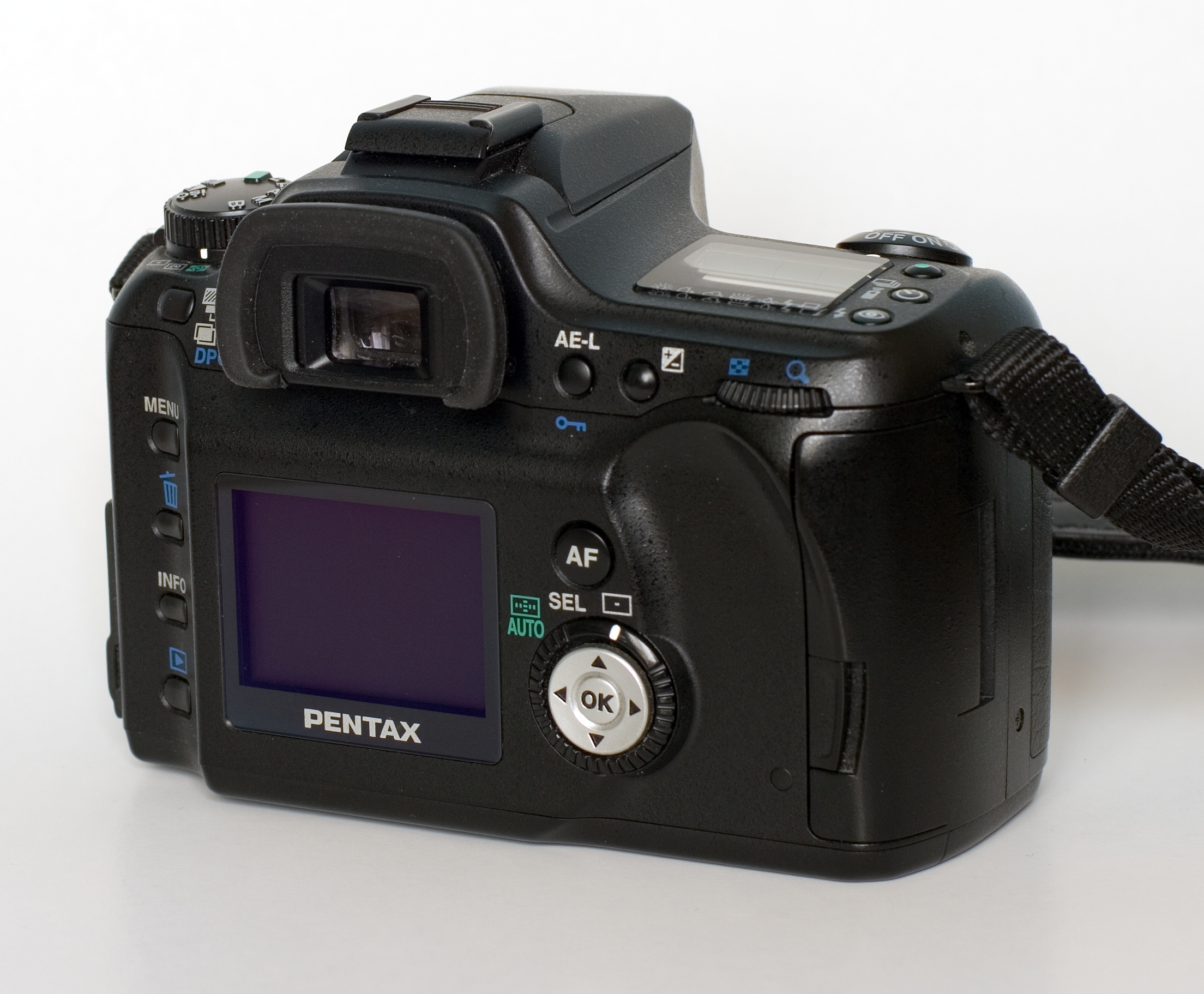 Pentax *istD DSLR photo camera body (back view).